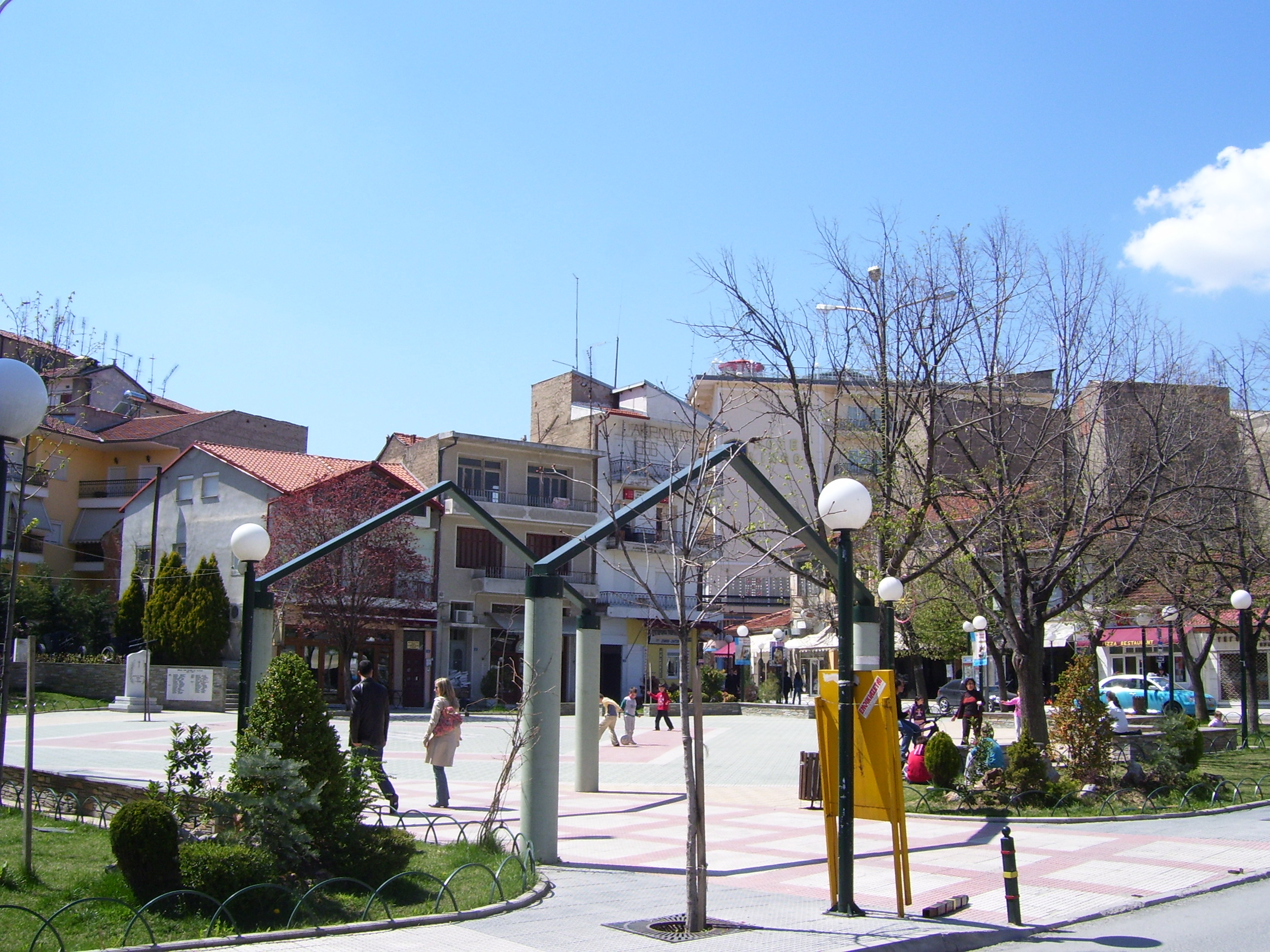 Main square of the westmacedonian city of Florina, Greece.